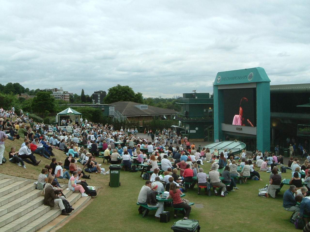 thumb|Henman Hill